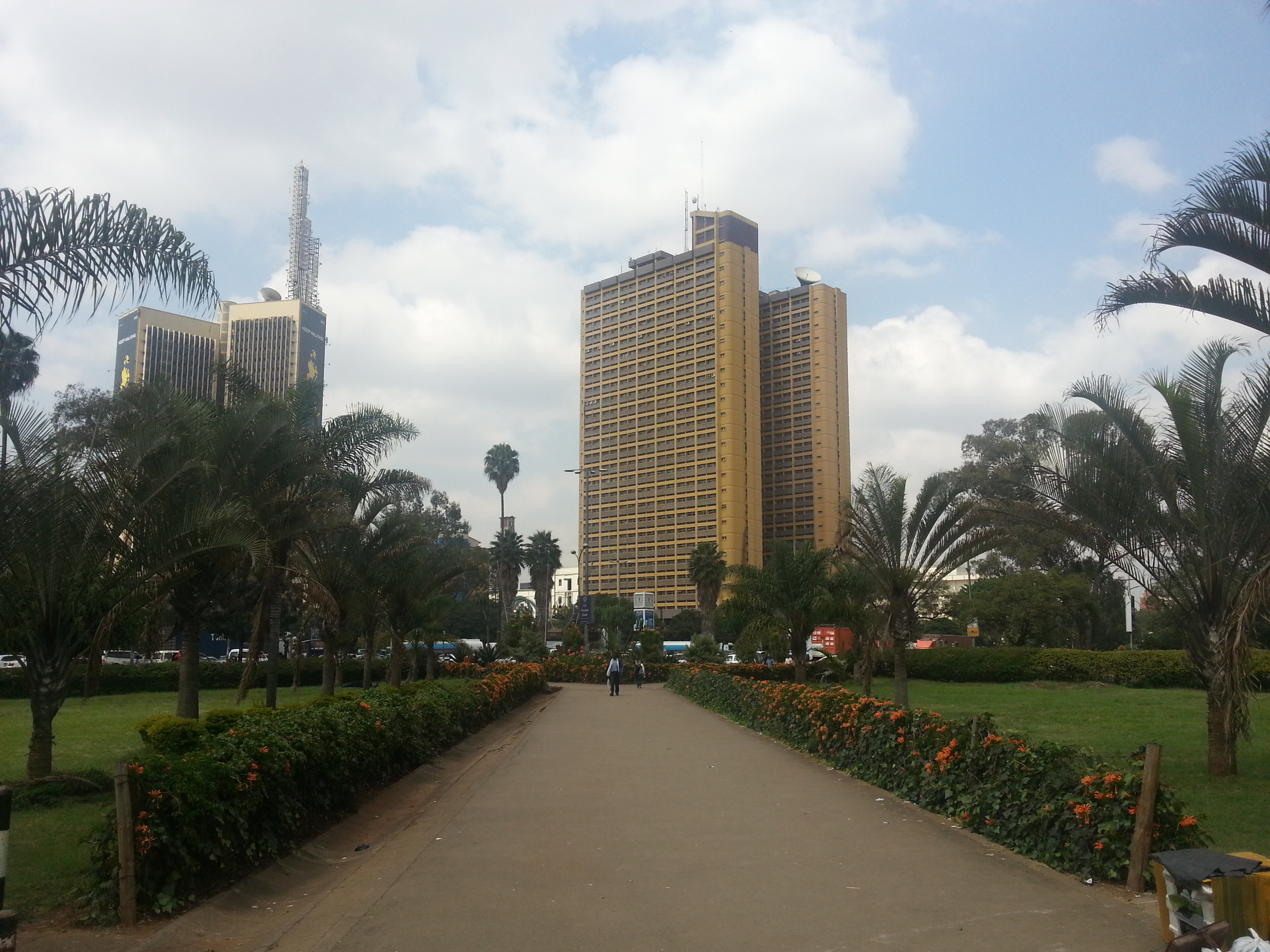 Nyayo House in Kenya which for a long time was used to detain political prisoners